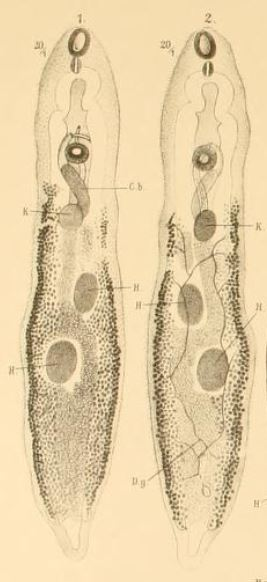 Illustration of the bat parasite Plagiorchis vespertilionis